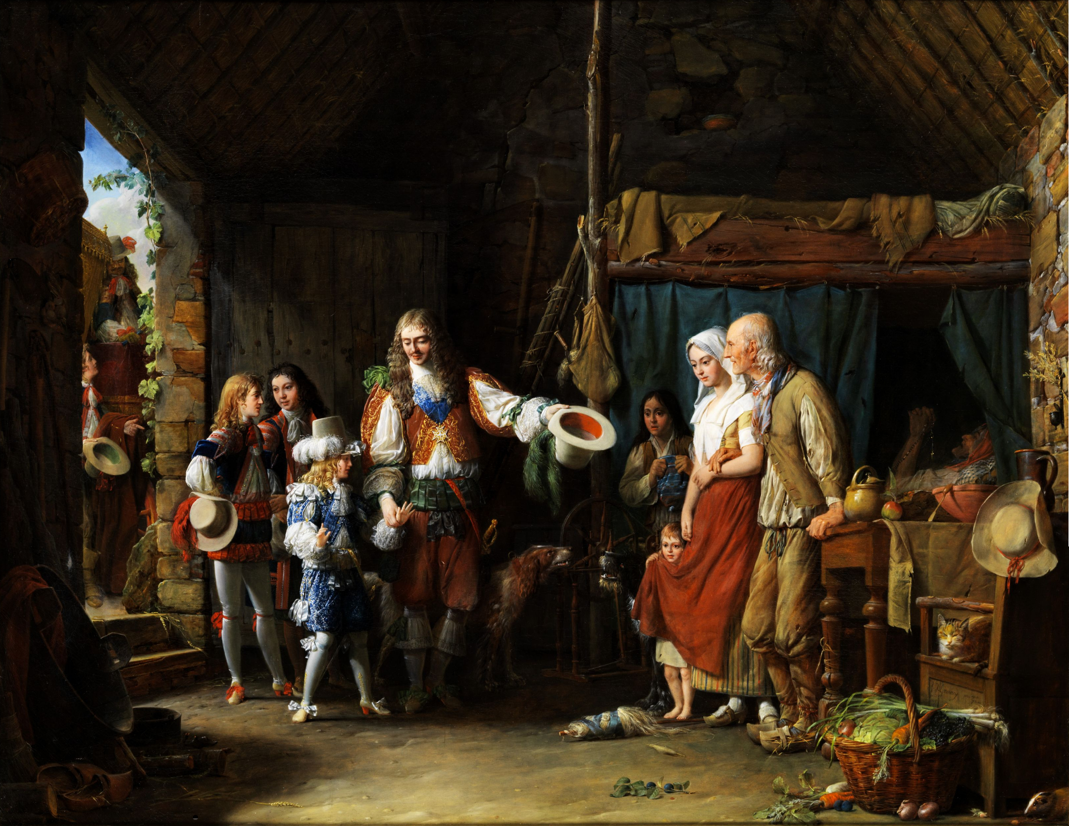 The visit of the Grand Dauphins in the company of the Duc de Montausier in a cabin.